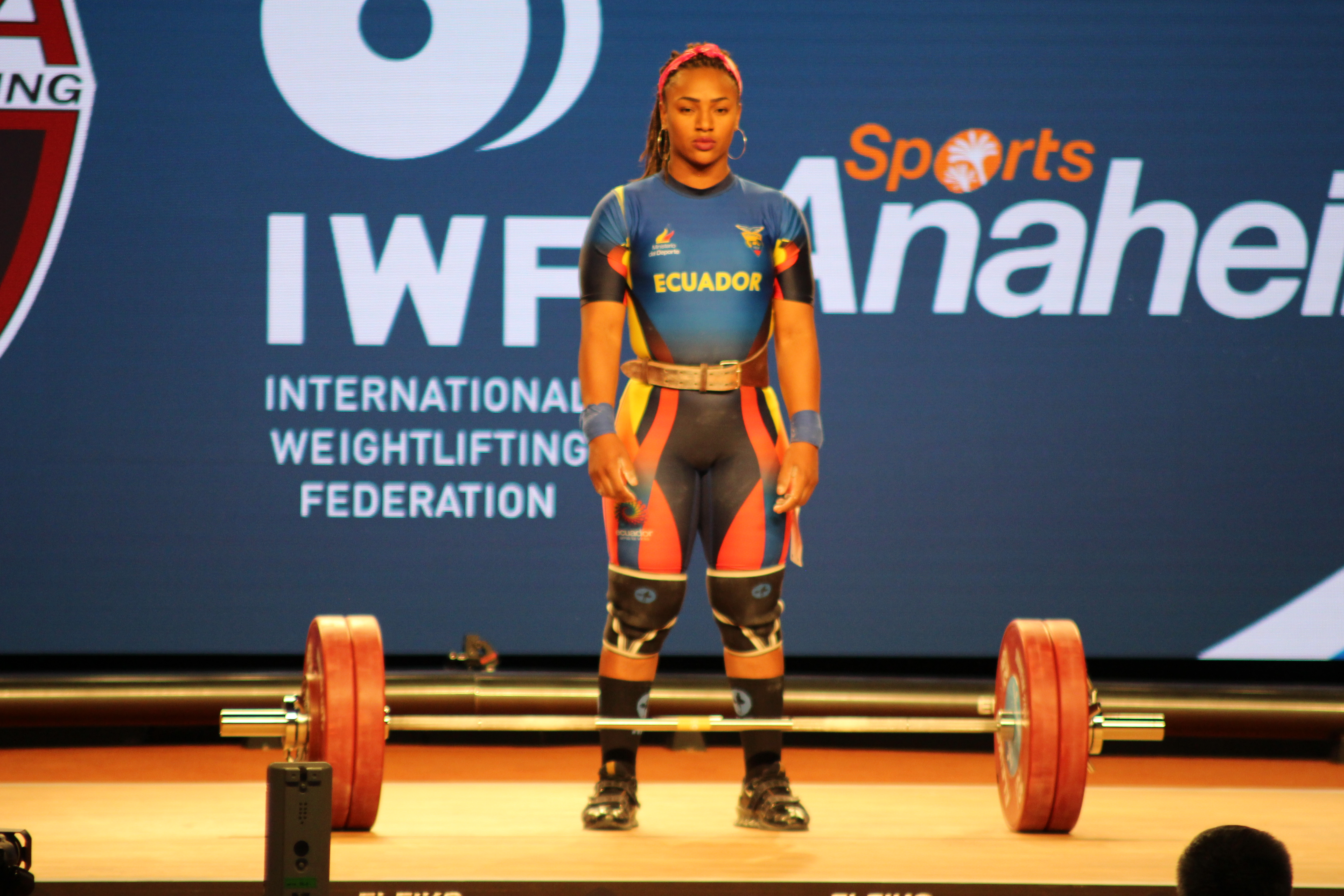 This is a photo of Ecuadorian women's weightlifter Tamara Salazar at the Weightlifting Championships in Anaheim, California in 2017.